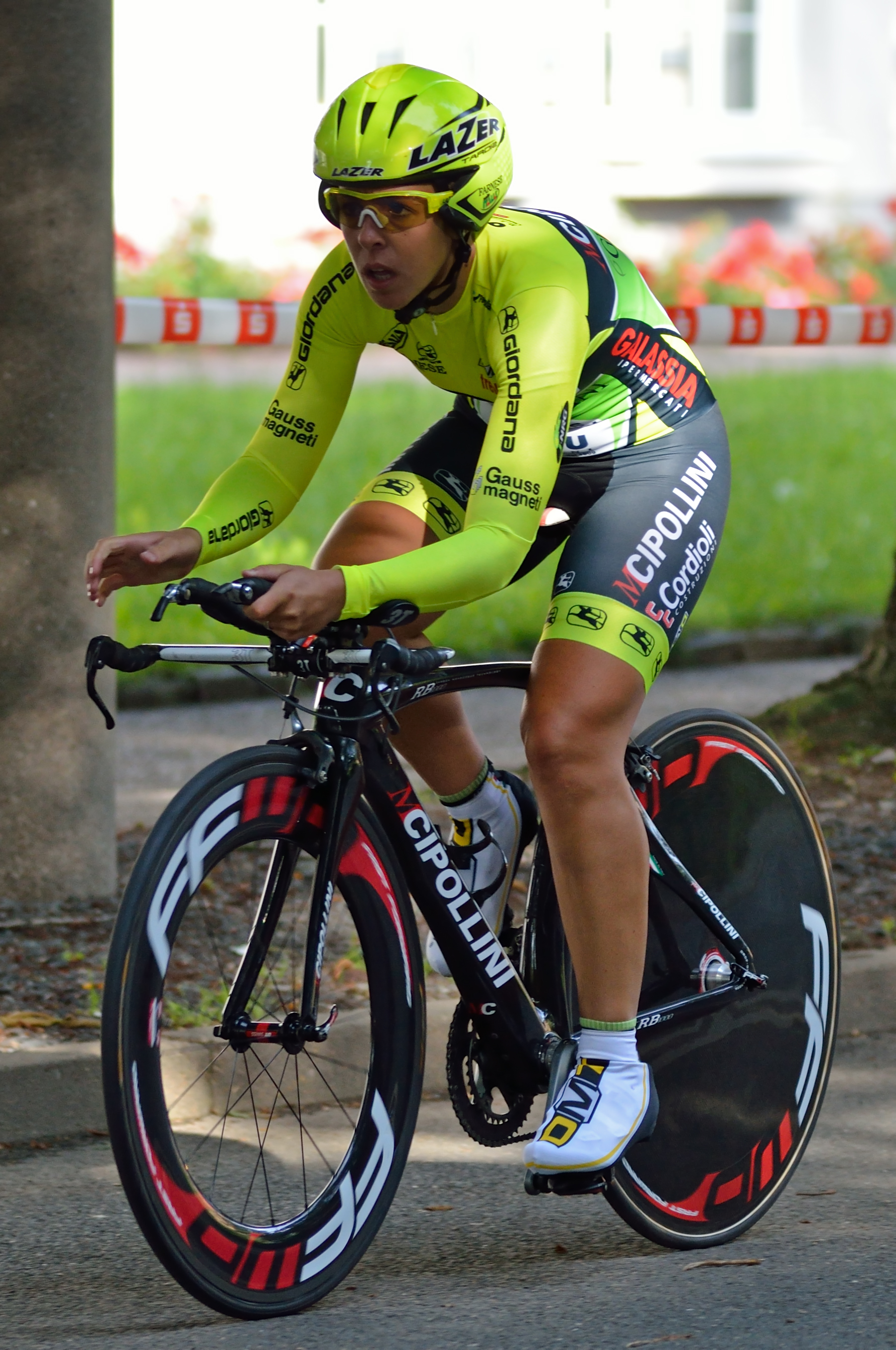 Marta Bastianelli from the MCipollini Giambenini team during the Women's Tour of Thuringia 2012 in Zwickau, Germany.